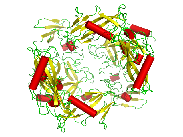 Structure of the catalytic domain of human plasmin complexed with streptokinase.